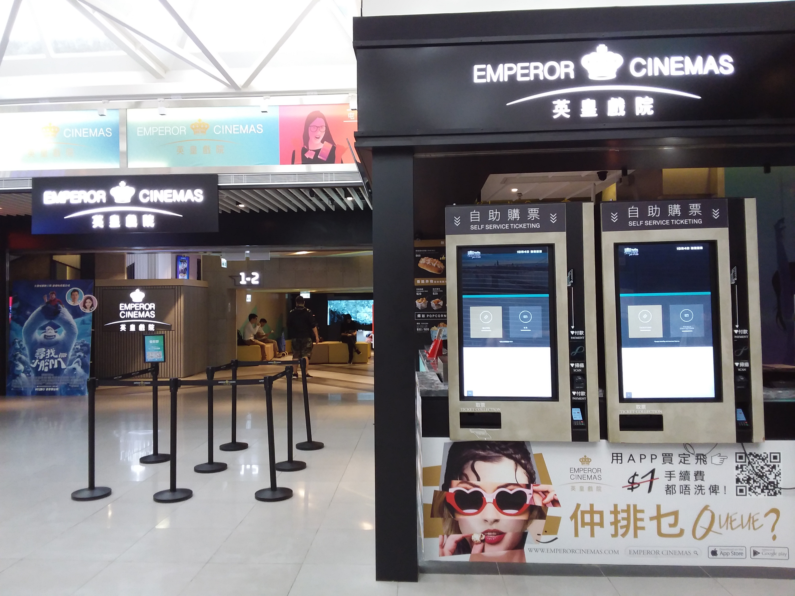 HK Tuen Mun 新都商場 New Town Commercial Arcade Waldorf Avenue shop Emperor Cinemas in September 2018